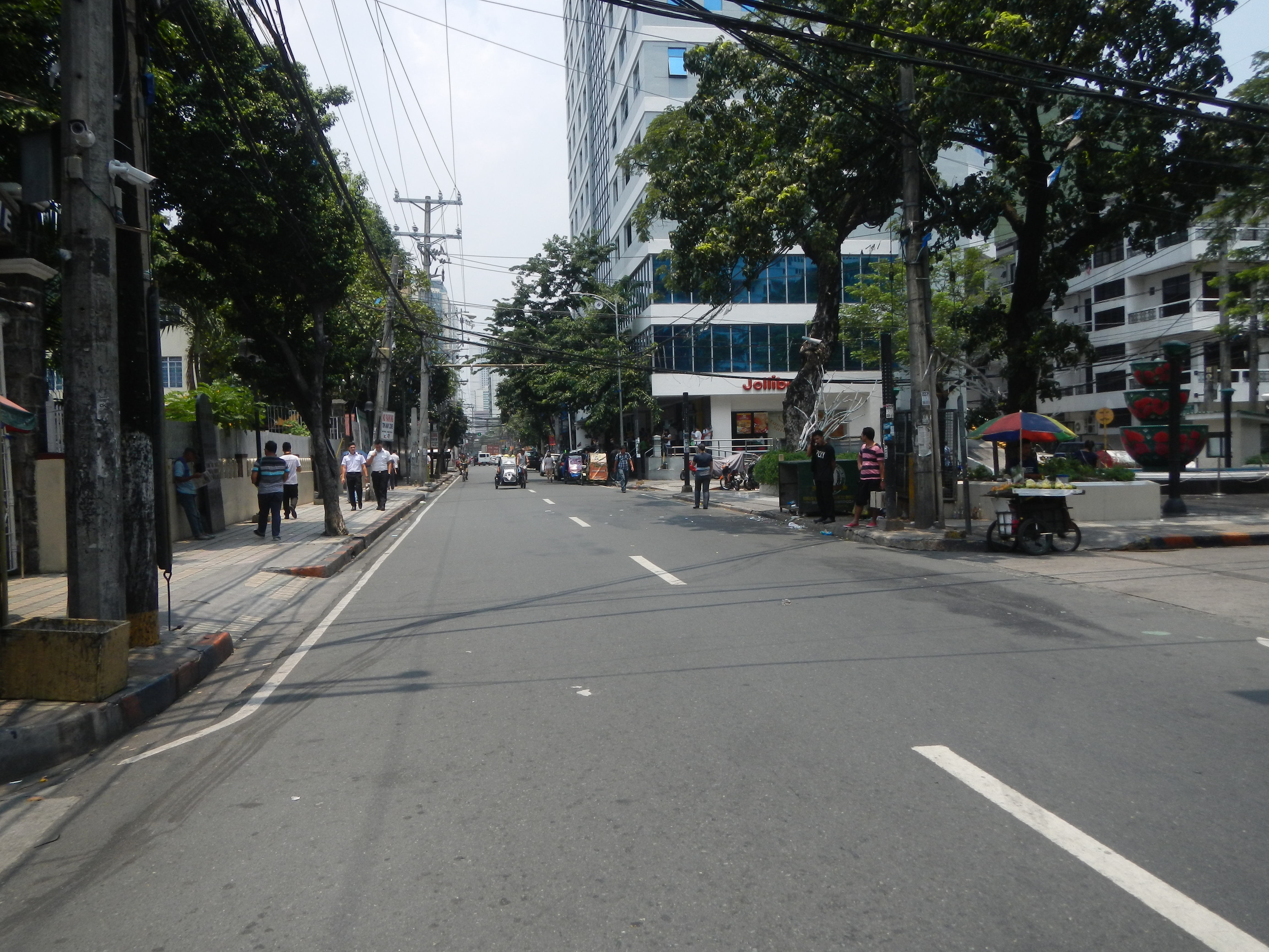 M. H. del Pilar Street Ermita, Manila, United Nations Avenue corner Roxas Boulevard Carlos P. Romulo Monument corner M. H. del Pilar Street from Taft Avenue corner Maria Orosa Street (Calle Flórida) corner Kalaw Avenue; List of roads in Metro Manila, Major roads in Manila in Legislative districts of Manila 3rd District, Barangay 666, Zone 72, District III, Ermita, Manila, City of Manila; (Note: Judge Florentino Floro, the owner, to repeat, Donor Florentino Floro of all these photos hereby donate gratuitously, freely and unconditionally all these photos to and for Wikimedia Commons, exclusively, for public use of the public domain, and again without any condition whatsoever).